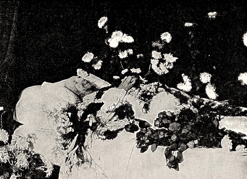 Body of King Oscar II of Sweden and Norway, after death;Place: Stockholm Palace, Sweden